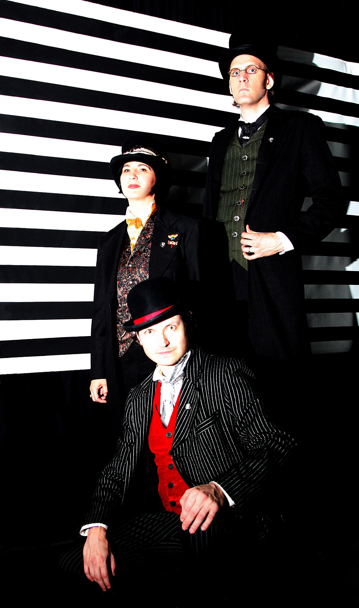 Group photo of the band Unextraordinary Gentlemen.